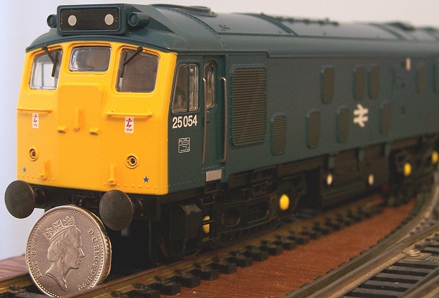 U.K. Prototype model of an 00 scale (1:76.2) shown with 5 pence coin for size, Photo by William J. Grimes.